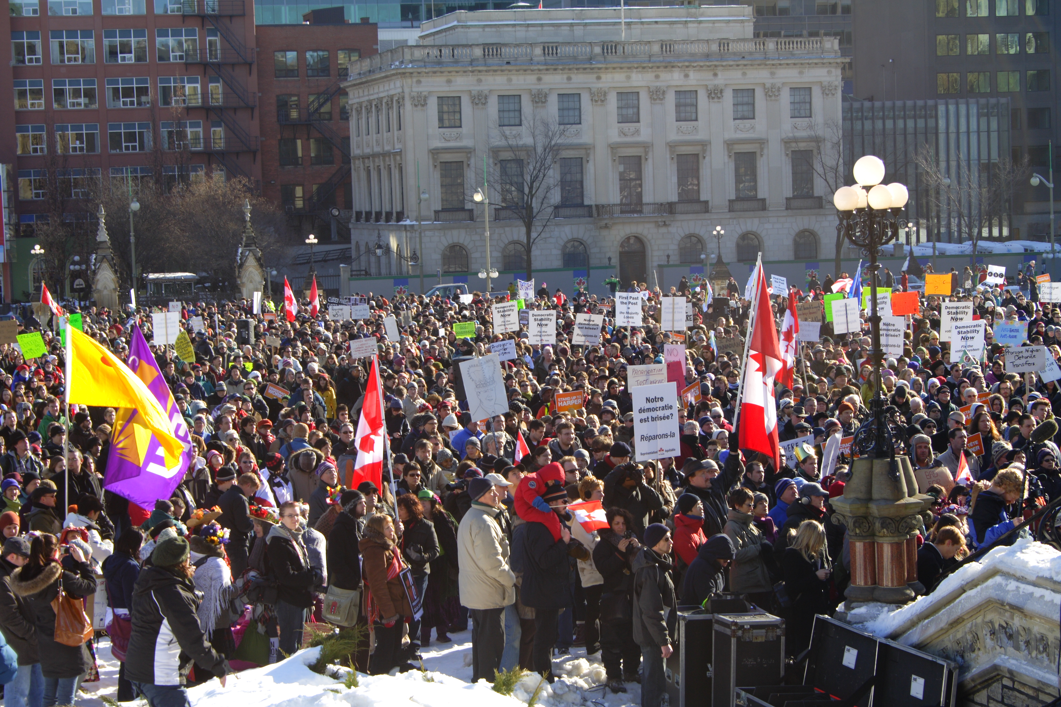 Canadians Against Proroguing Parliament protest on Parliament Hill. Ottawa, Canada.